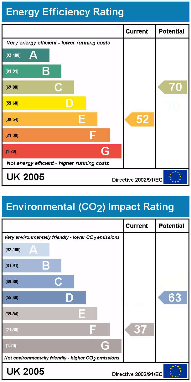 Sample UK home performance rating energy efficiency label, vertical (charts one above the other) orientation. See also: thumb|Home energy performance rating charts